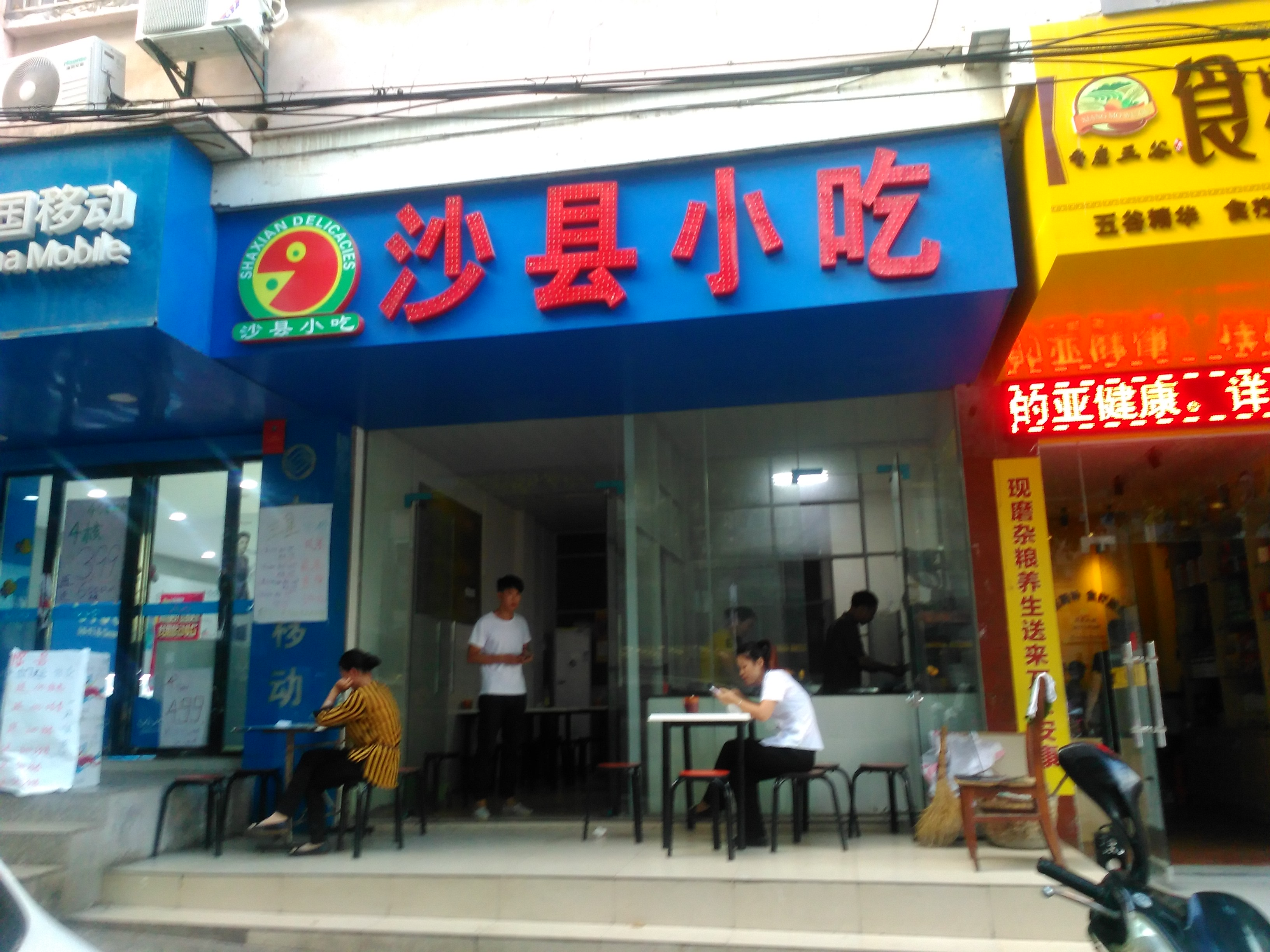 Shaxian delicacies restaurant in Ji'an